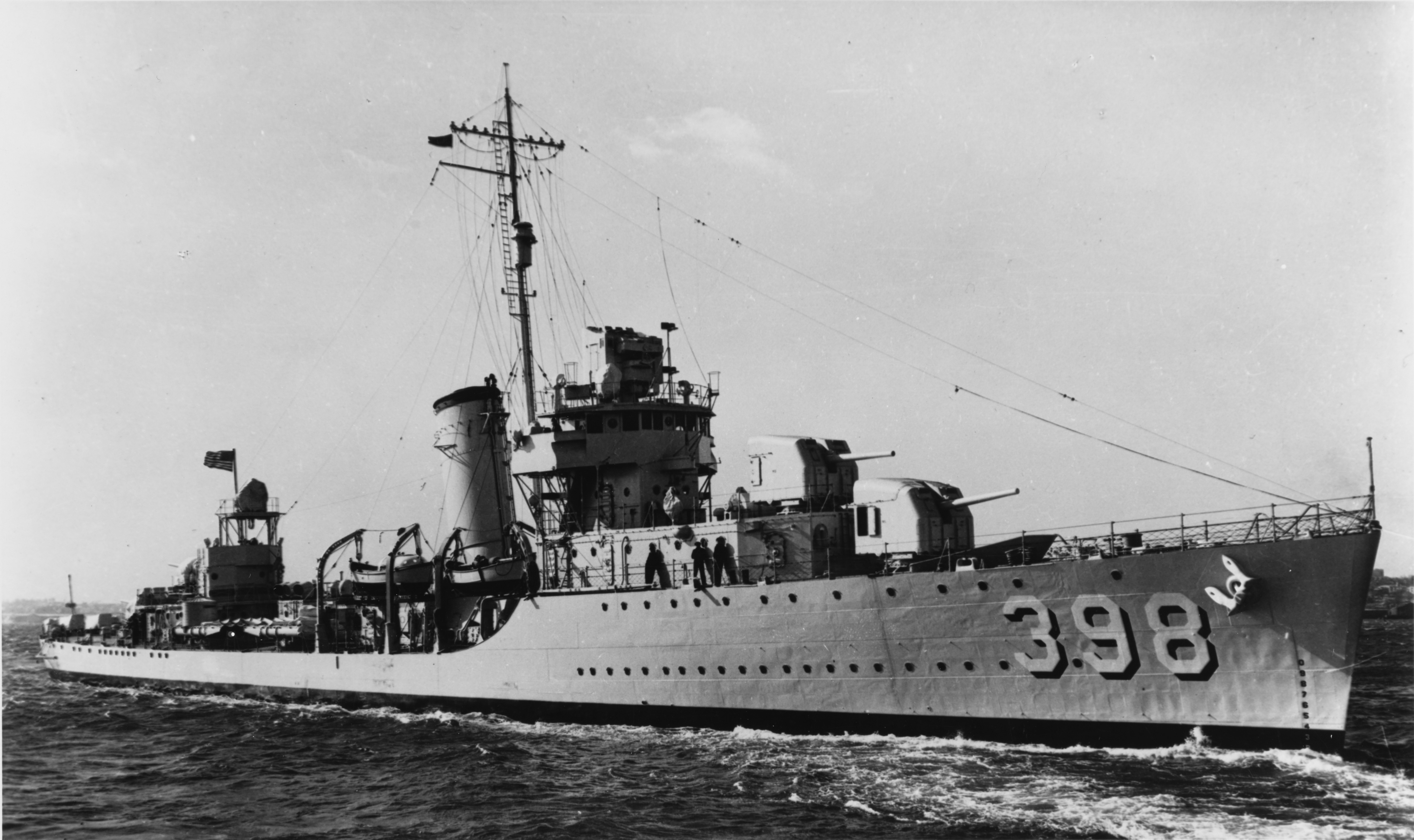 Going astern in February 1939, probably in the New York City area. Photograph from the Bureau of Ships Collection in the U.S. National Archives.